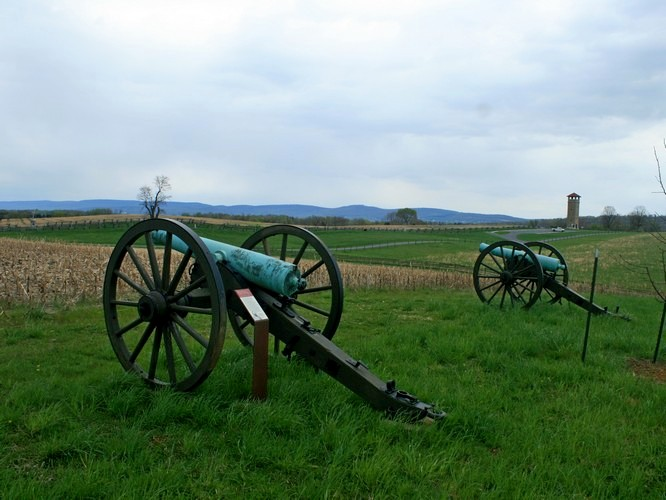 Miller Battery; after the collapse of the Southern positions on the road, gen Longstreet and his staff manned one of this guns in attempt to hold the line.